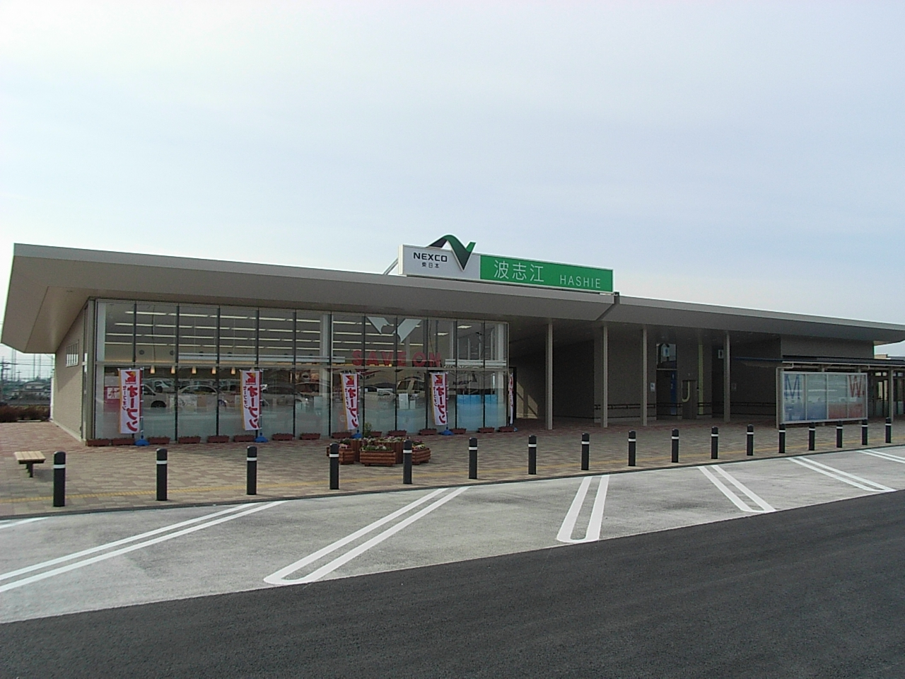 Hashie Parking Area (Up)